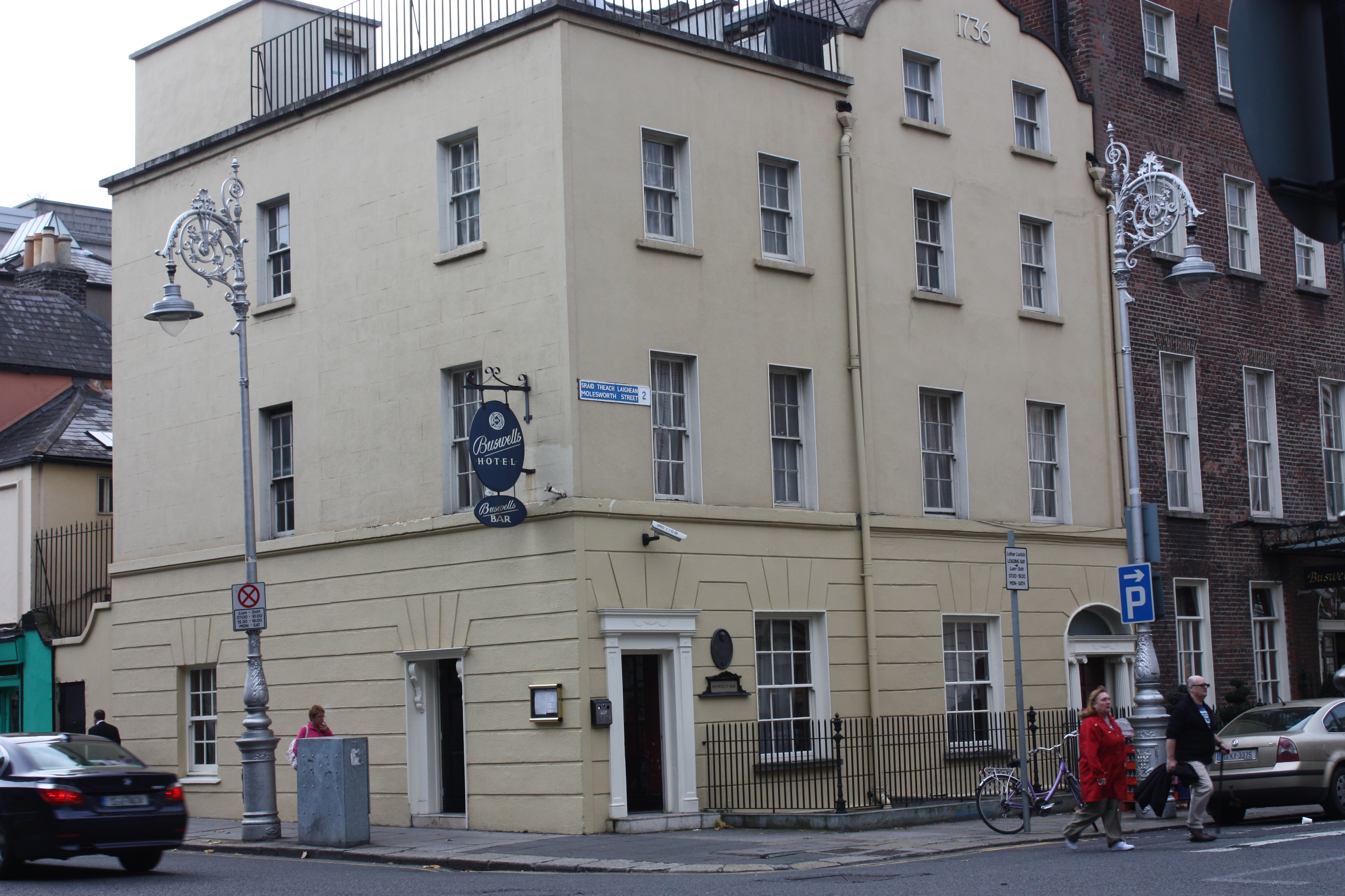 Buswells Hotel, Molesworth Street, Dublin, Republic of Ireland, October 2010 (on the corner with Kildare Street)